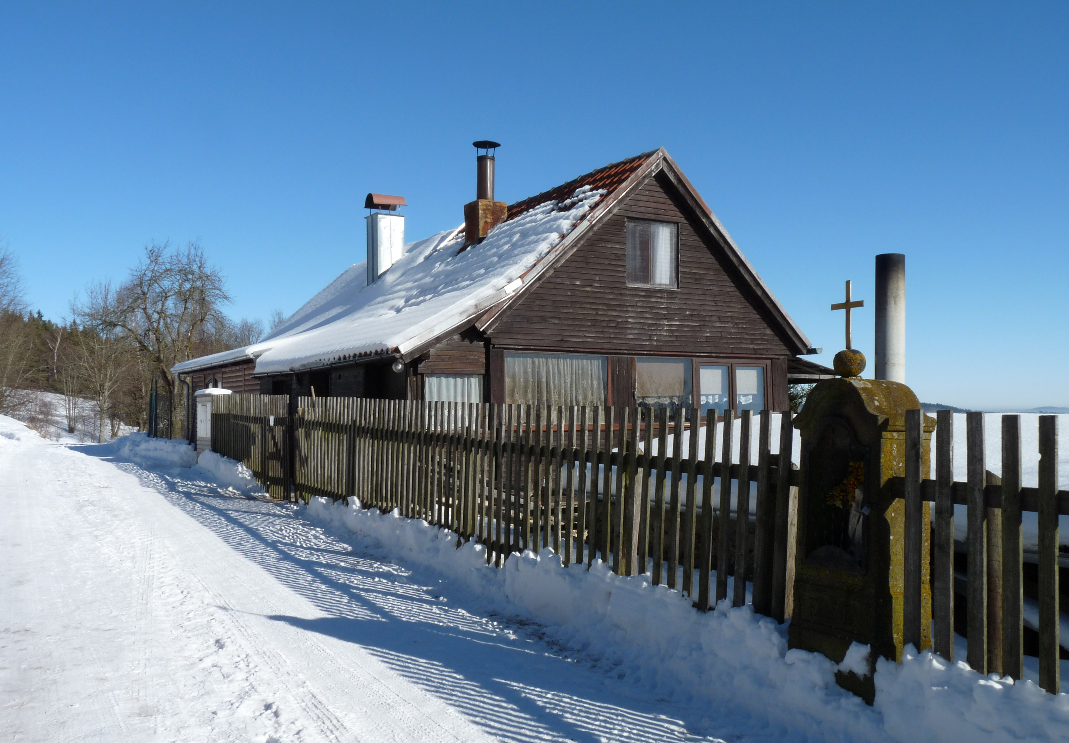 House No 18 Horní Sněžná near the town of Volary, Prachatice District, South Bohemian Region, Czech Republic.